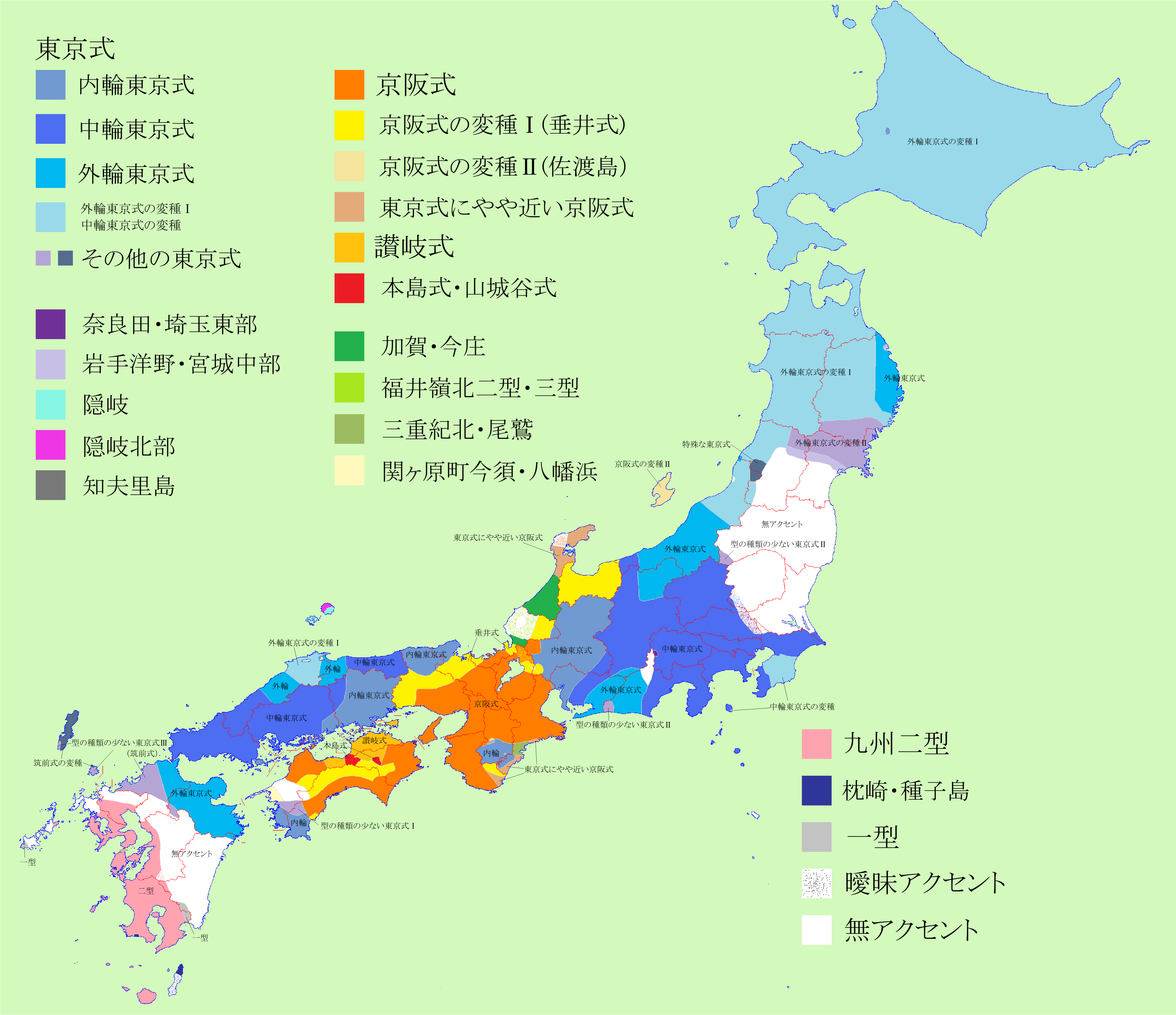 Zones map of Japanese pitch accent (with Japanese description)